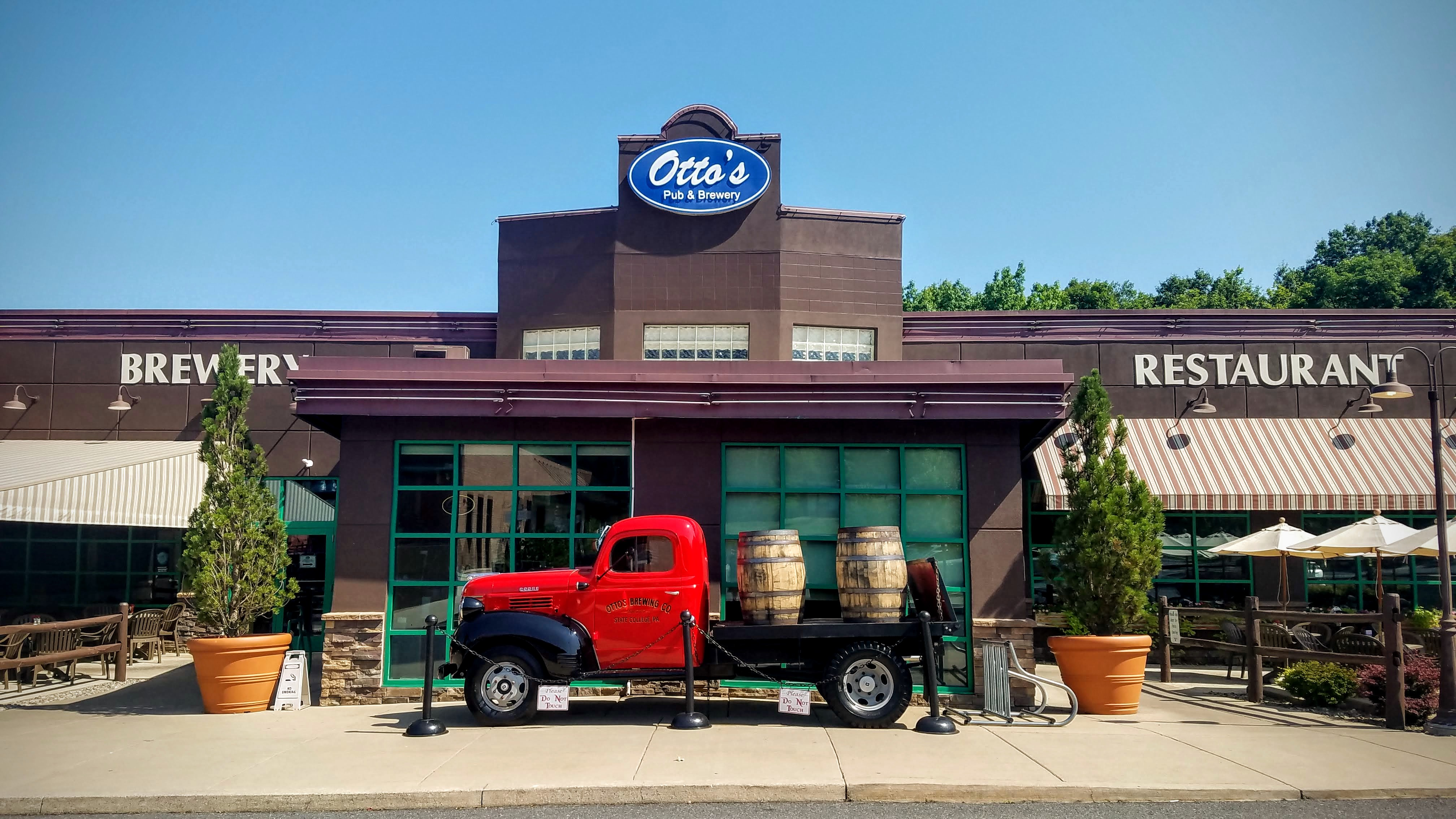 Otto's Pub and Brewery in State College, Pennsylvania